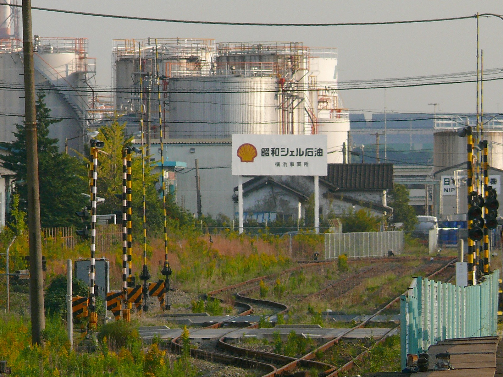 Hama-anzen Station Premises(It is being abolished now.).